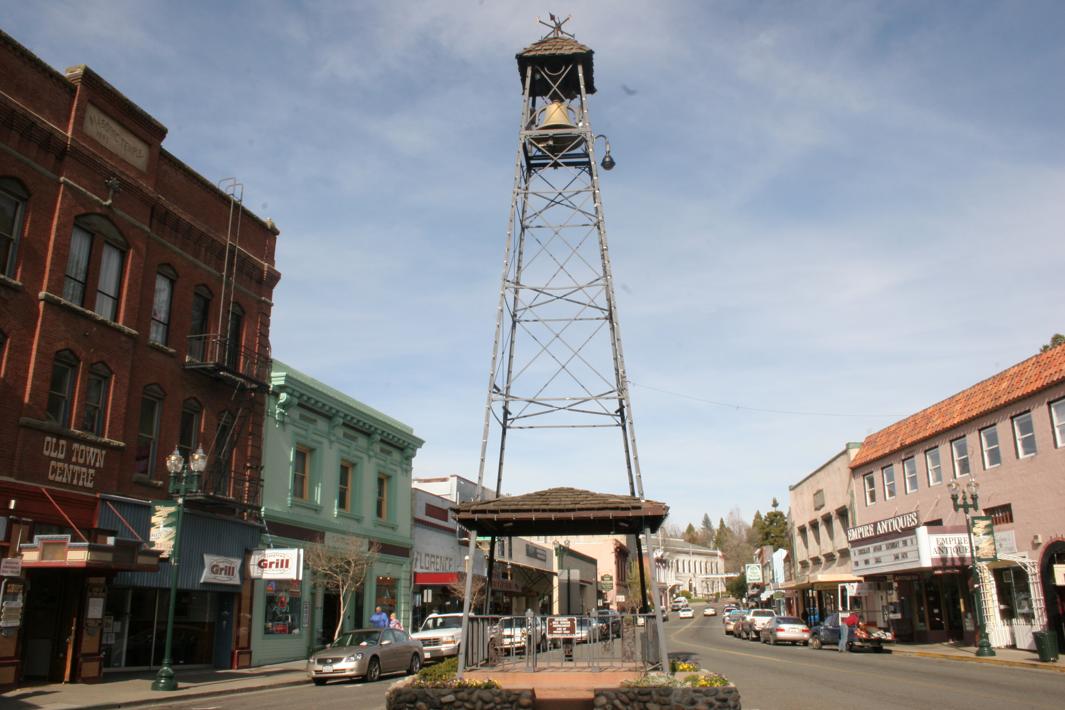 Bell in the middle of Placerville, California.